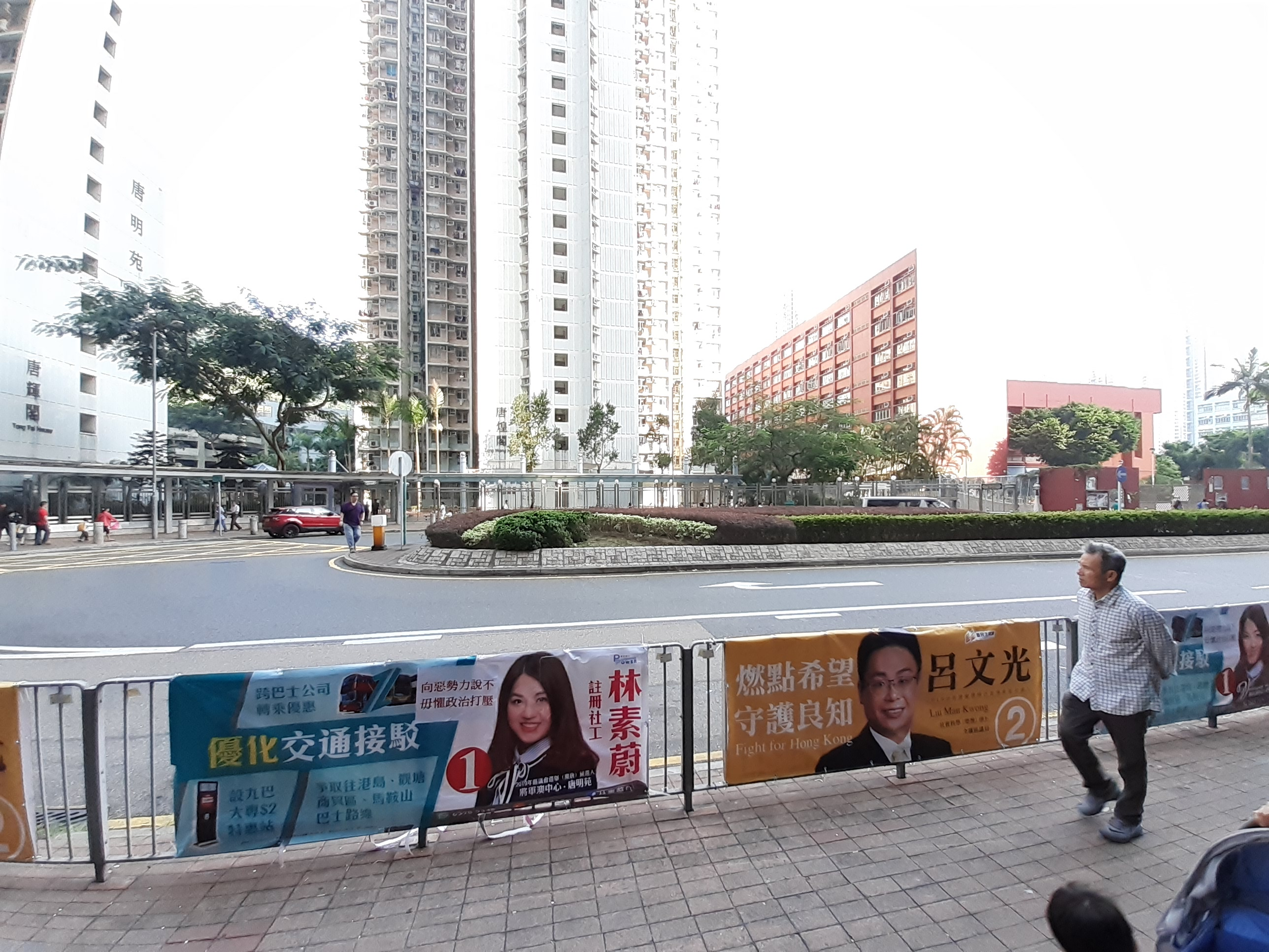 HK TKO 將軍澳 Tseung Kwan O 唐德街 Tong Tak Street 香港區議會選舉 District Council Election candidates banners in November 2019 LAM So Wai, Connie & Lui Man Kwong